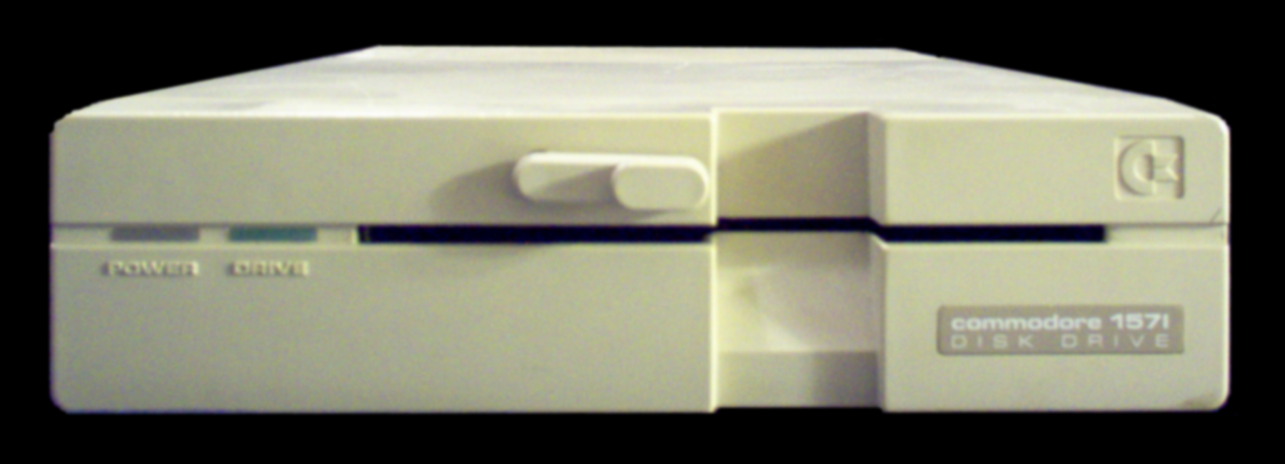 A photo of the Commodore 1571 floppy drive, taken by me (User:Crotalus horridus) on 3/25/06. PD. This was taken with a crappy HP digital camera, and GIMP was then used to crop out the background. I also used Gaussian blur because the image was pixelated.